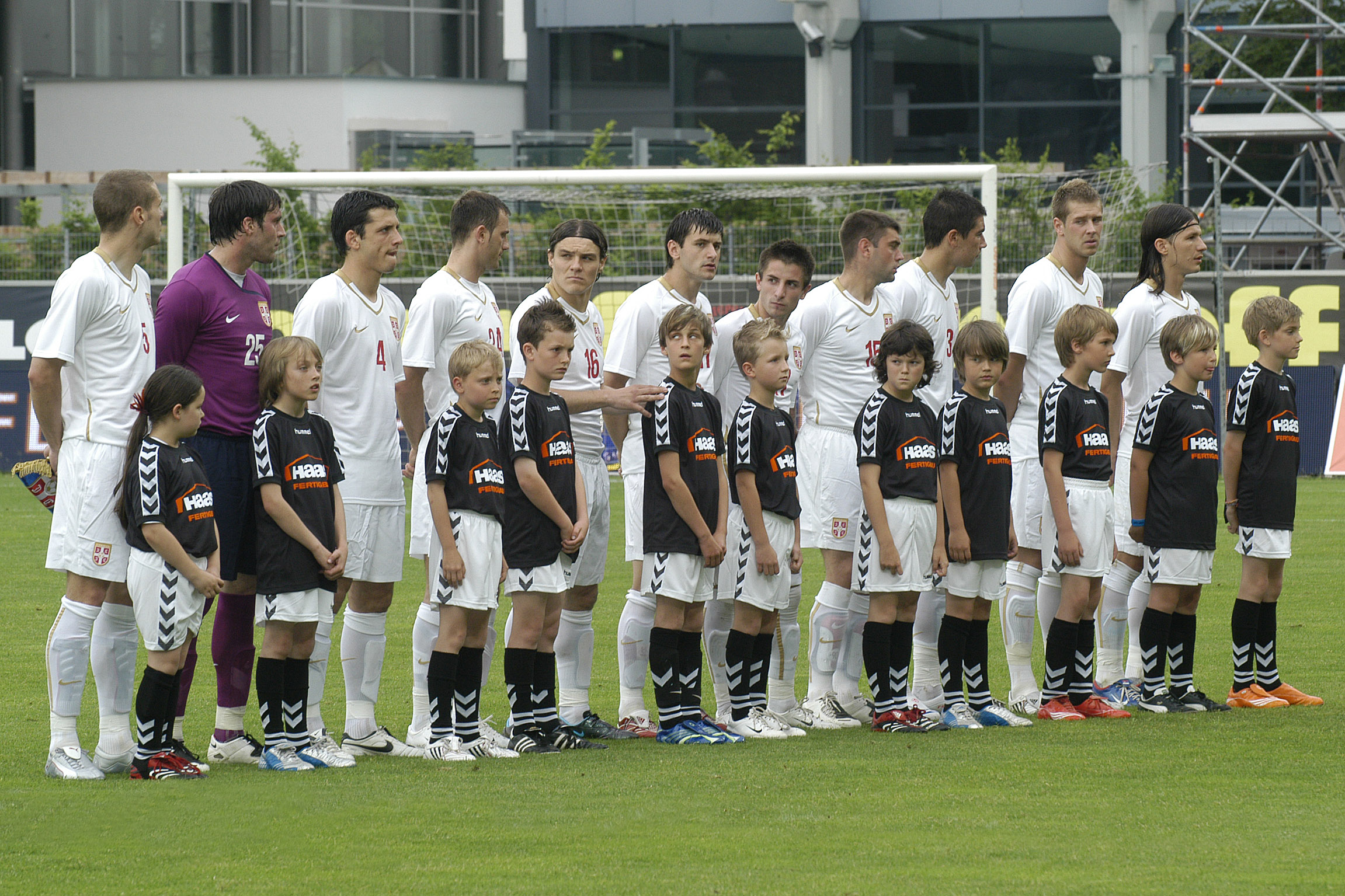 Soccer national team Serbia 2008